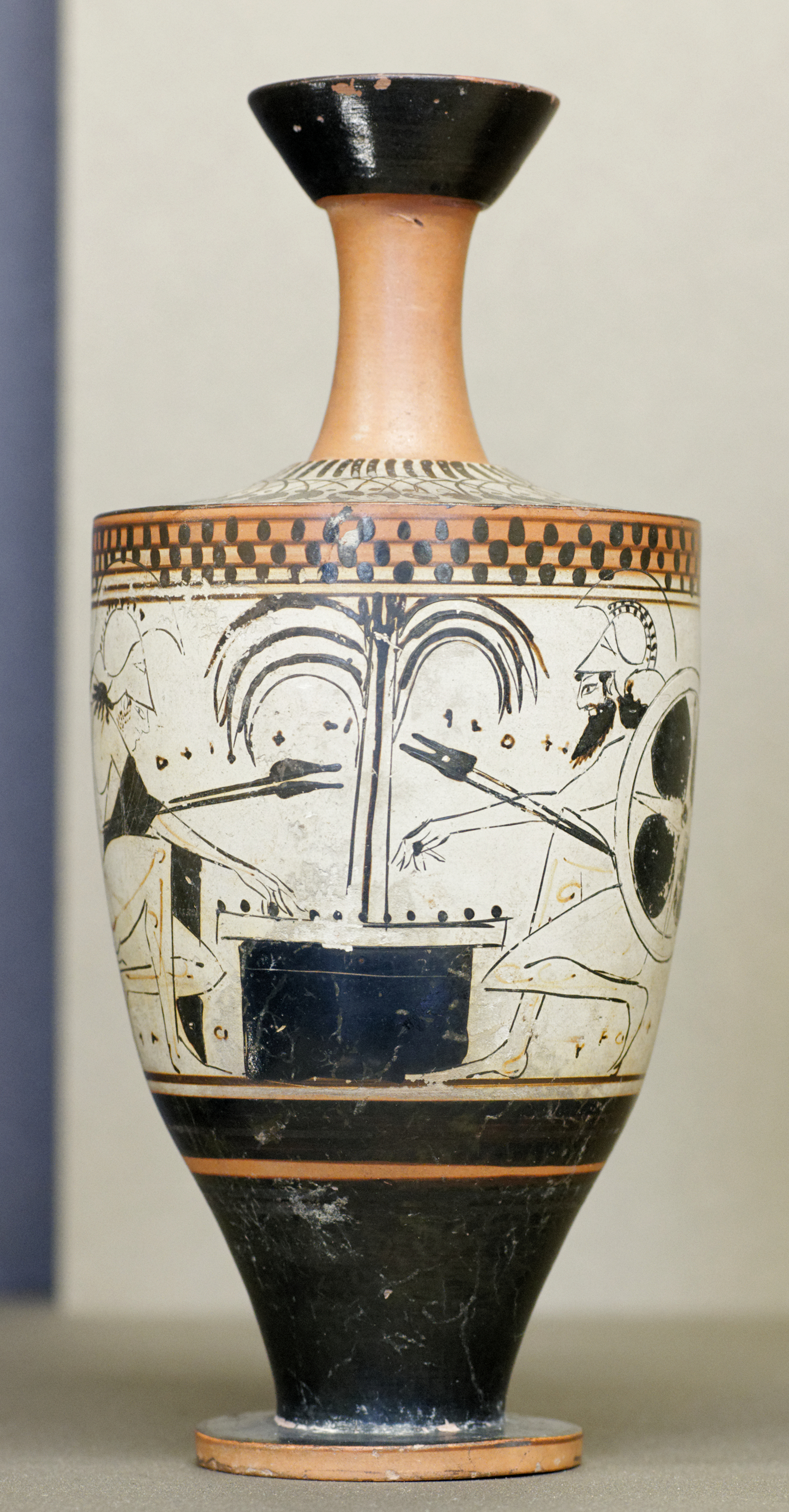 Achilles (on the left) and Ajax the Great (on the right) playing dice, identified by inscriptions. Black-figure Attic lekythos.